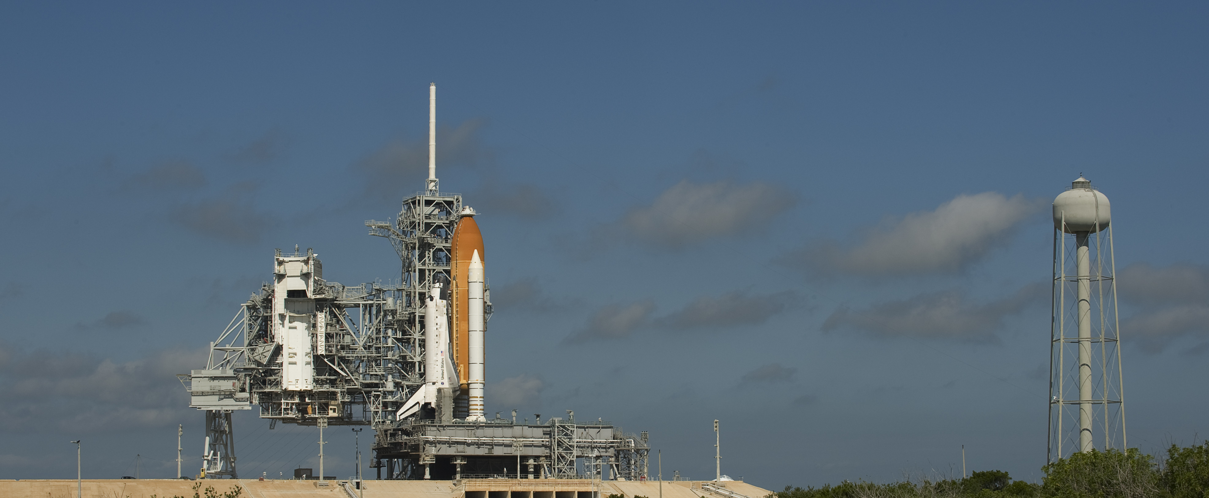 The space shuttle Discovery poised for lift-off on the STS-128 mission from Pad 39a at the Kennedy Space Centre in Cape Canaveral, Florida.